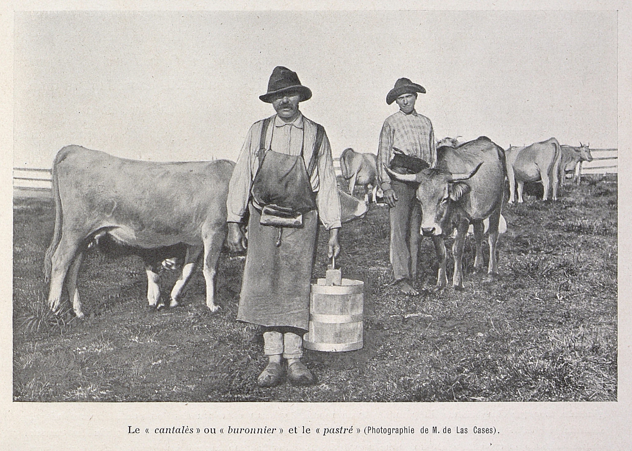 Aubrac cattle with cowmen in Massif Central. (France)